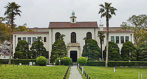 The School of Theology at Nishinomiya Uegahara Campus, Kwansei Gakuin University.